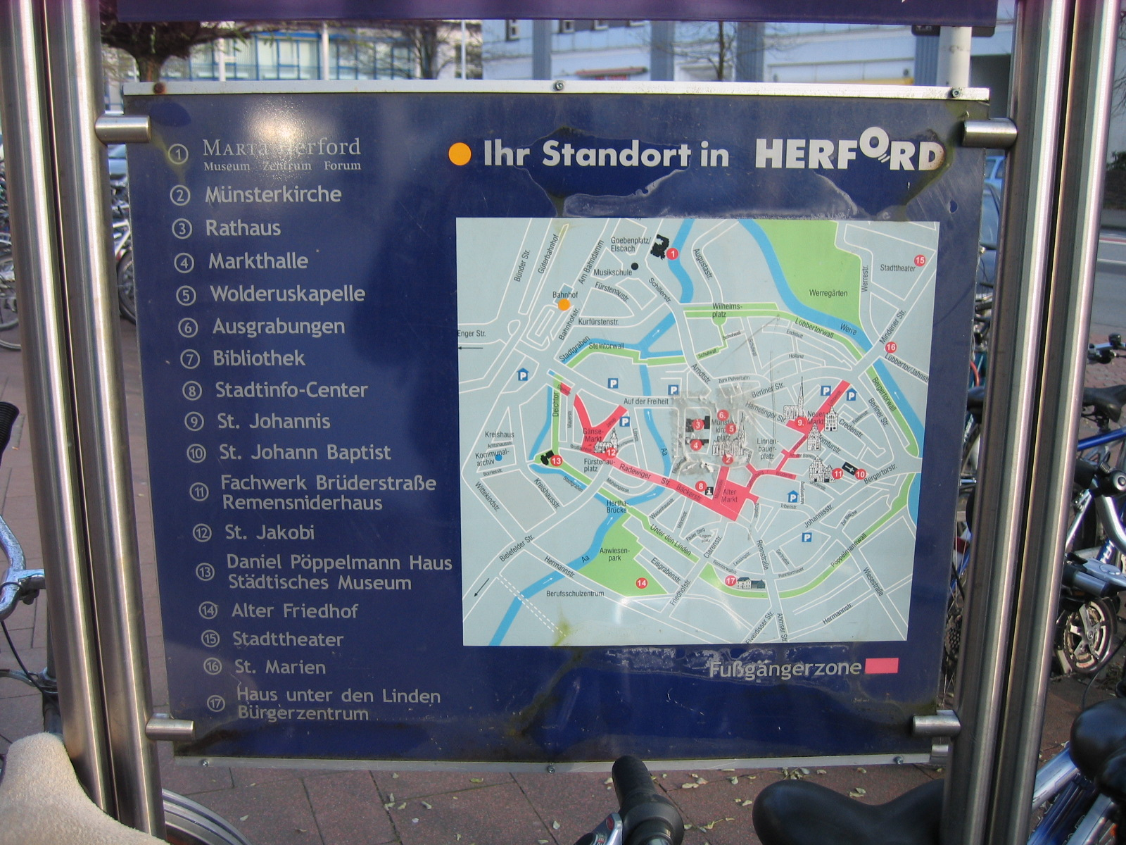 in Herford, District of Herford, North Rhine-Westphalia, Germany.